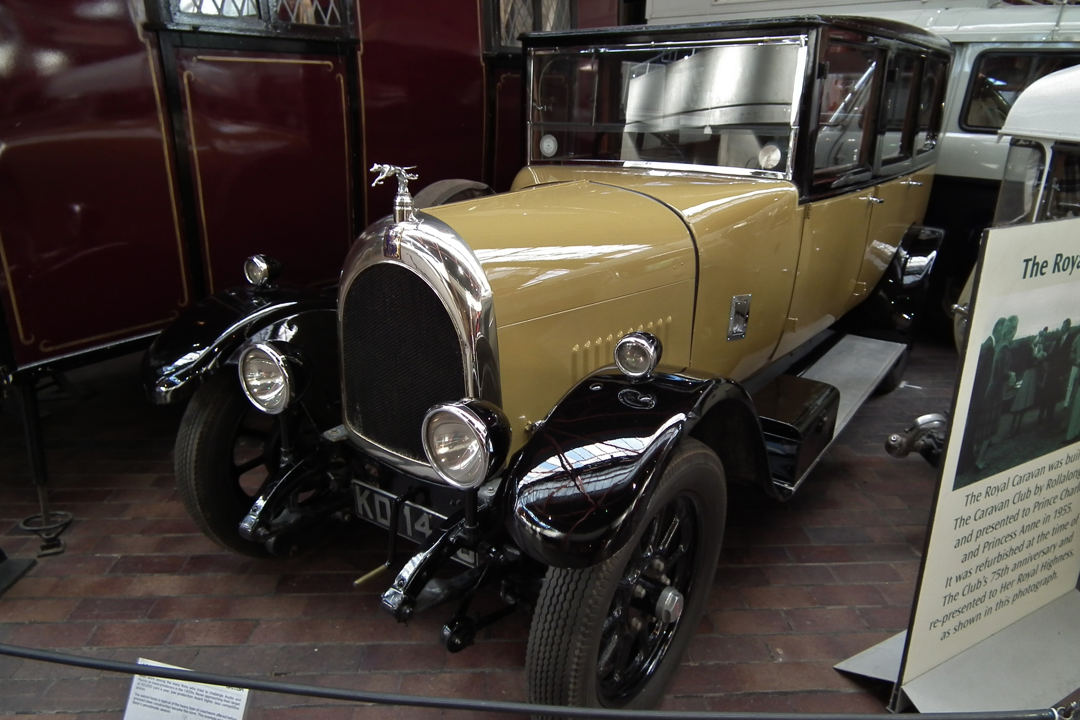 1928 Bean Short 14. Taken at the National Motor Museum in Beaulieu, Hampshire, England.